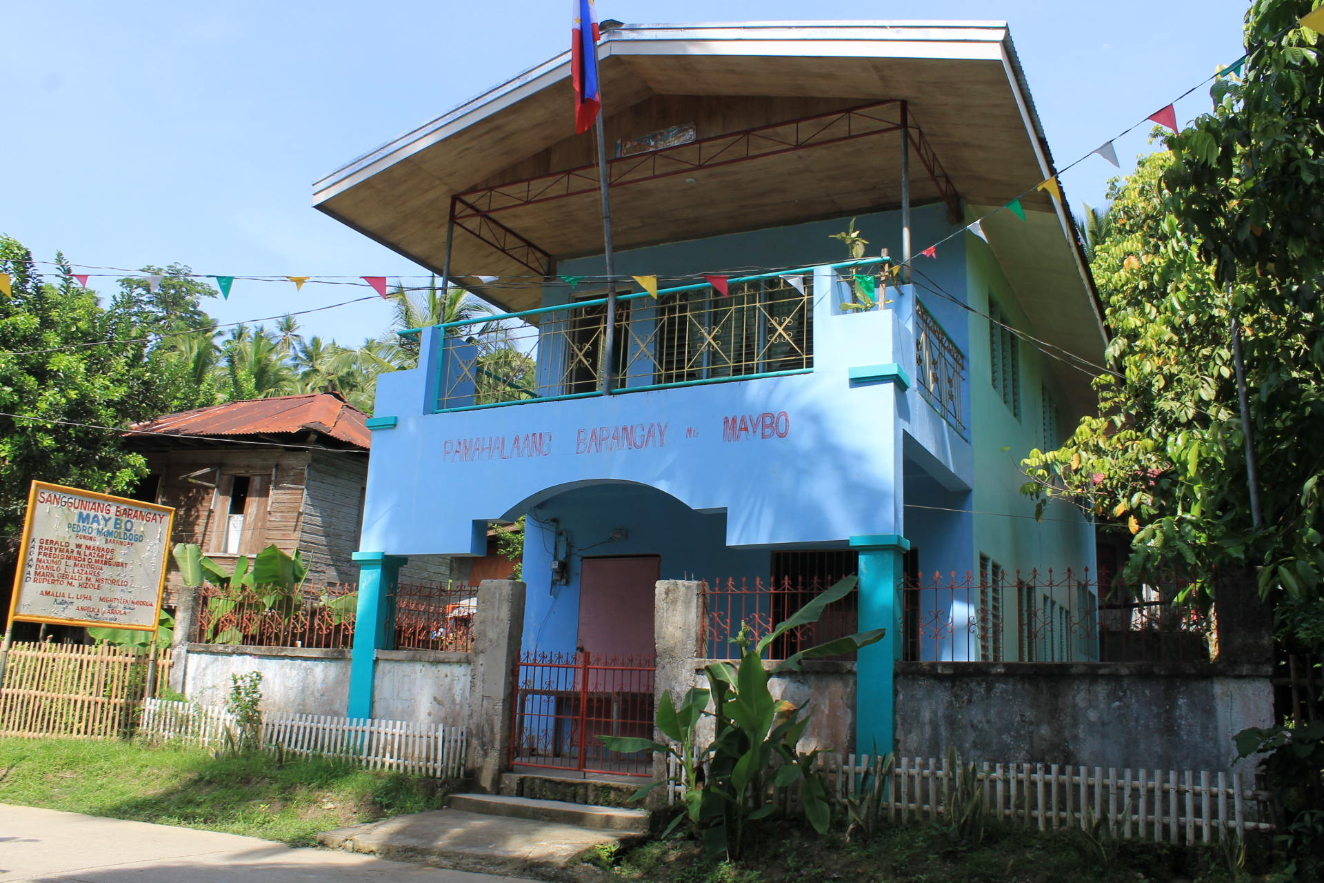 A hall building of this village Maybo,Boac,Marinduque